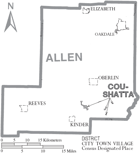 Map of Allen Parish, Louisiana, United States with municipal boundaries